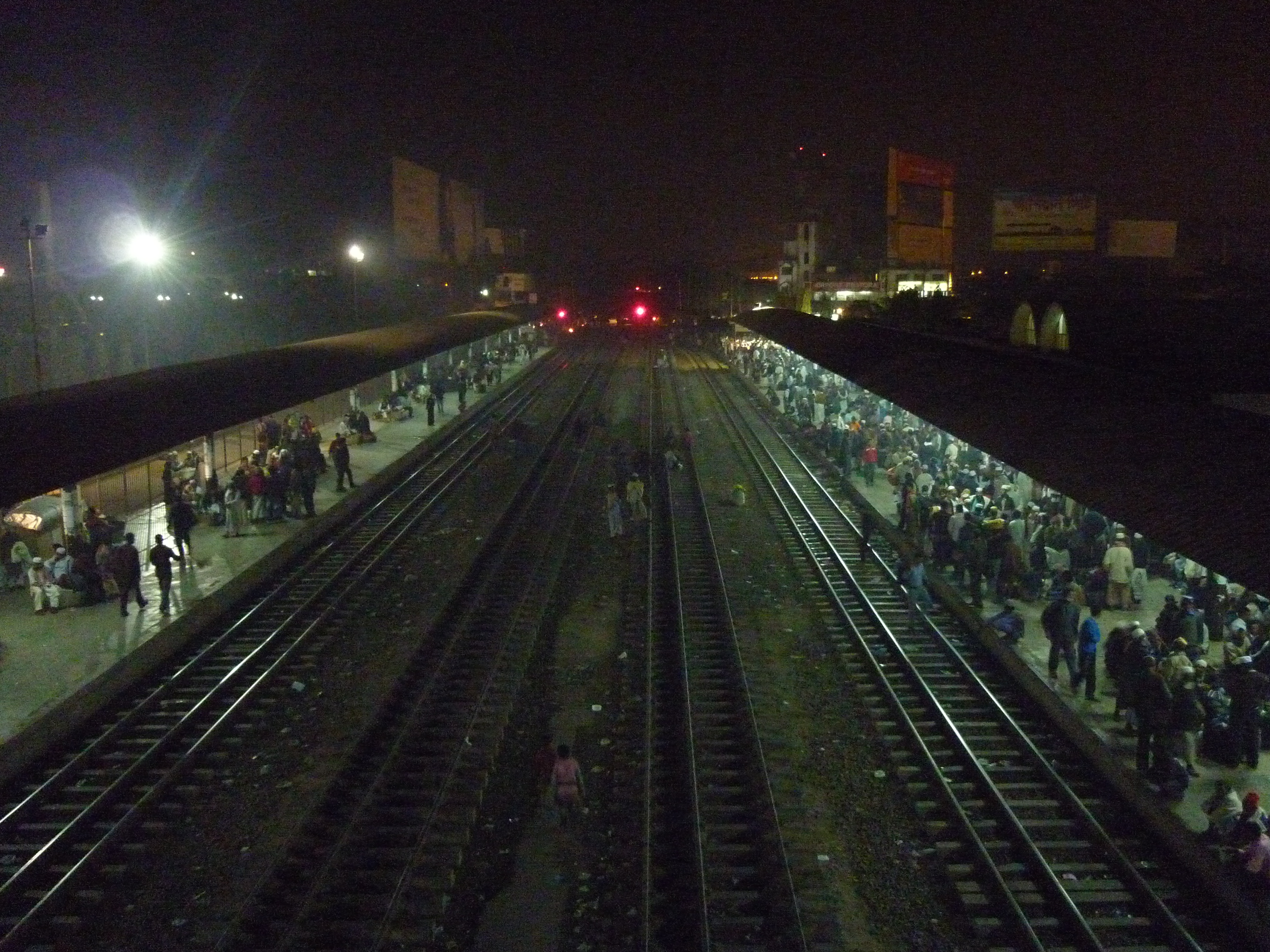 Airport Railway Station, Dhaka.